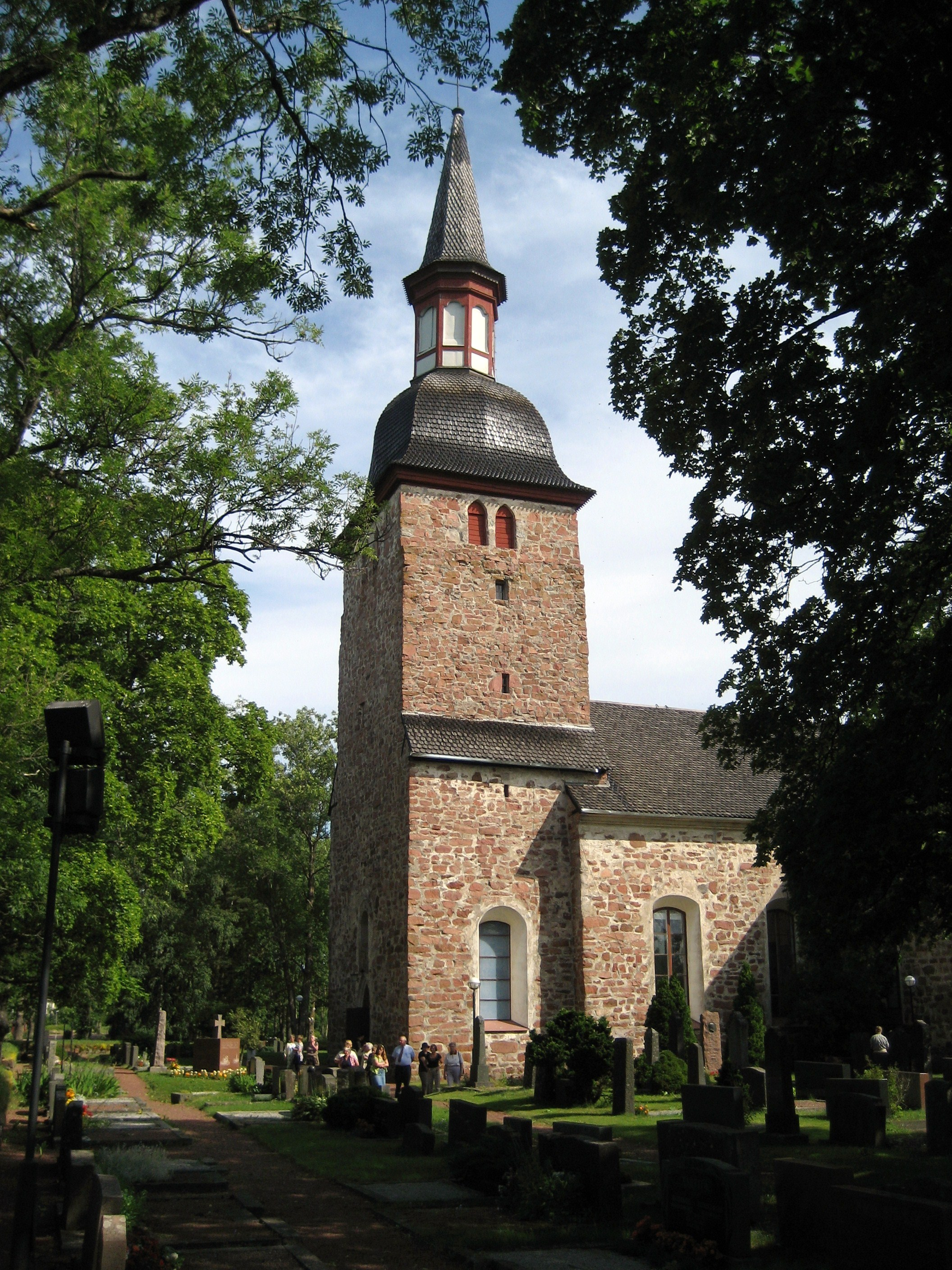 Jomala church, Åland